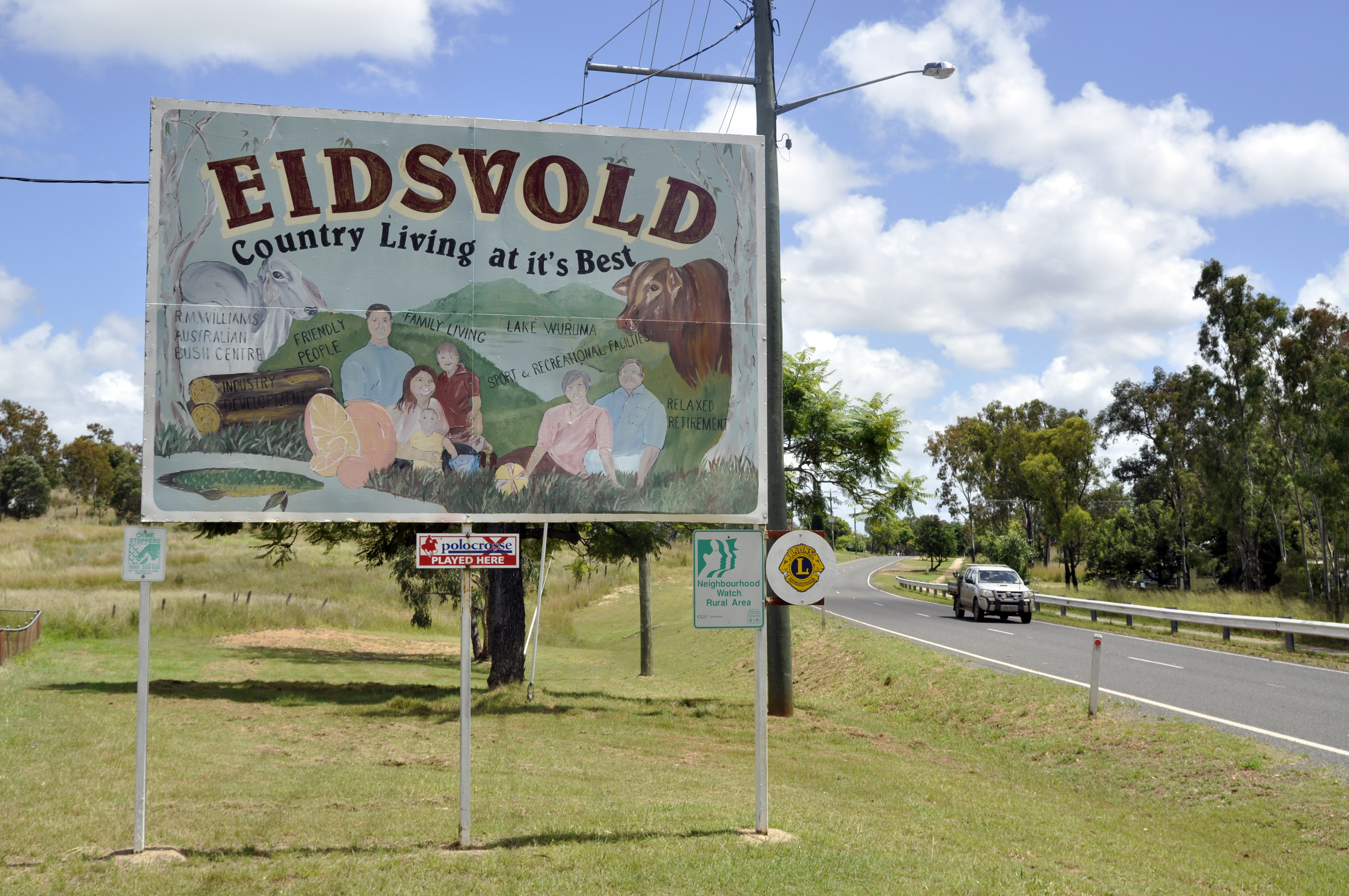 A roadsign from the village of Eidsvold in Queensland, Australia.